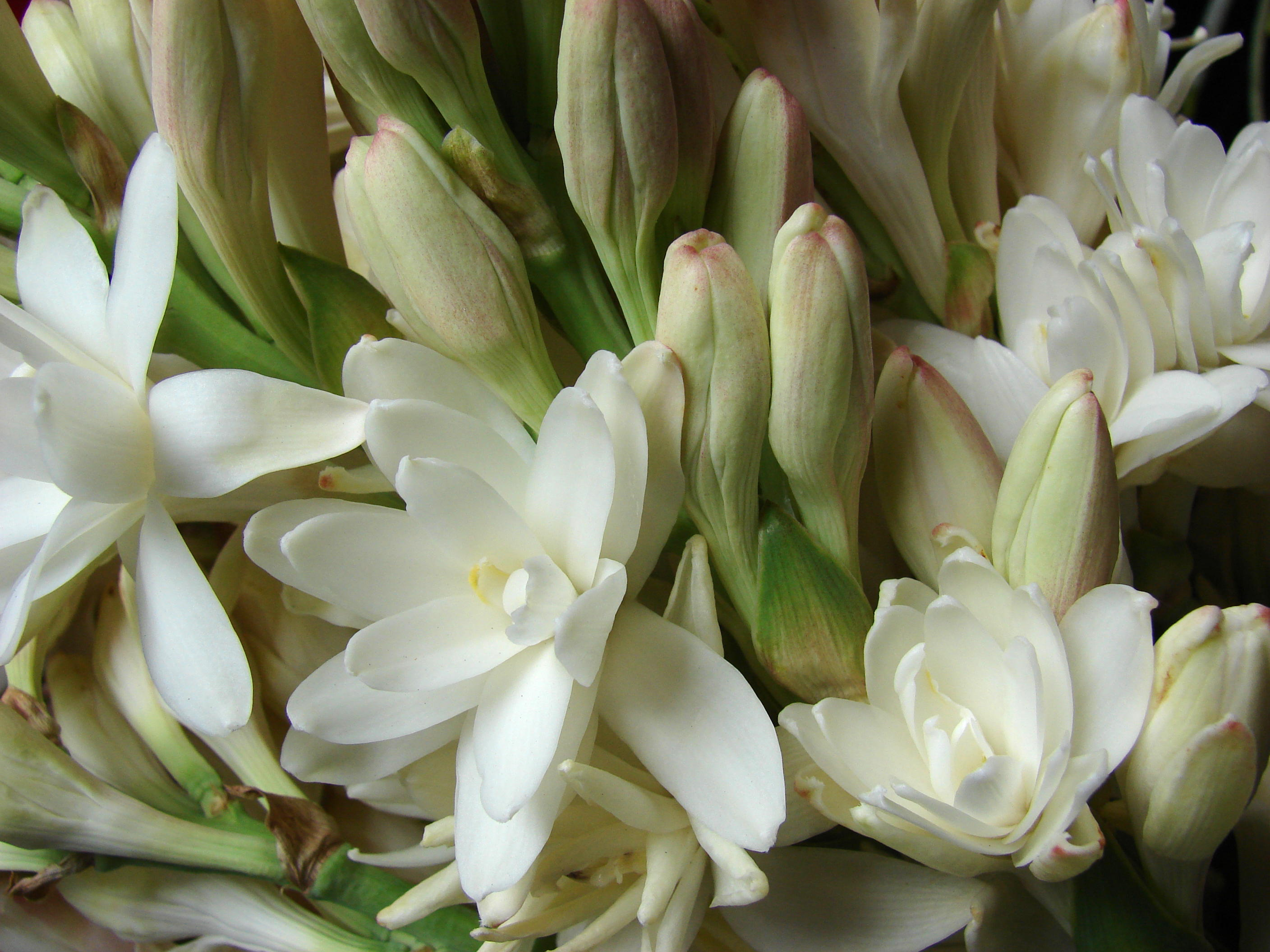 Polianthes tuberosa (flowers). Location: Maui, Kula Ace Hardware and Nursery